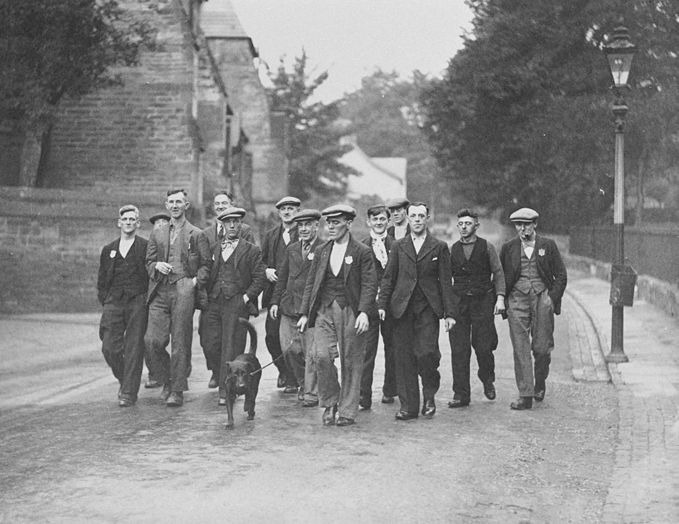 Jarrow Marchers en route to London. Collection of (National Media Museum (Photographer unknown)